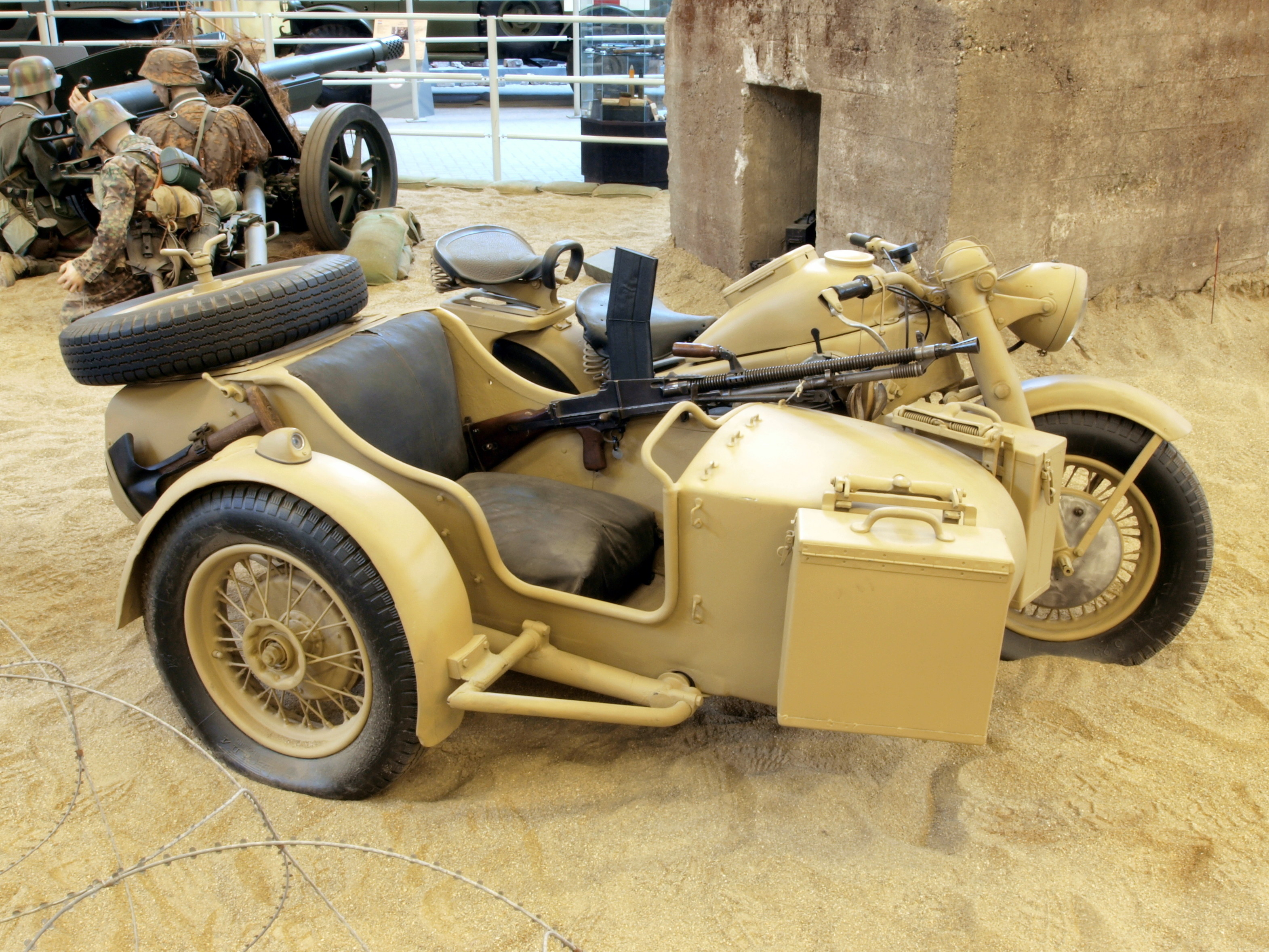 Photographed at the Marshallmuseum - Liberty Park - Oorlogsmuseum Overloon, The Netherlands. OLYMPUS DIGITAL CAMERA